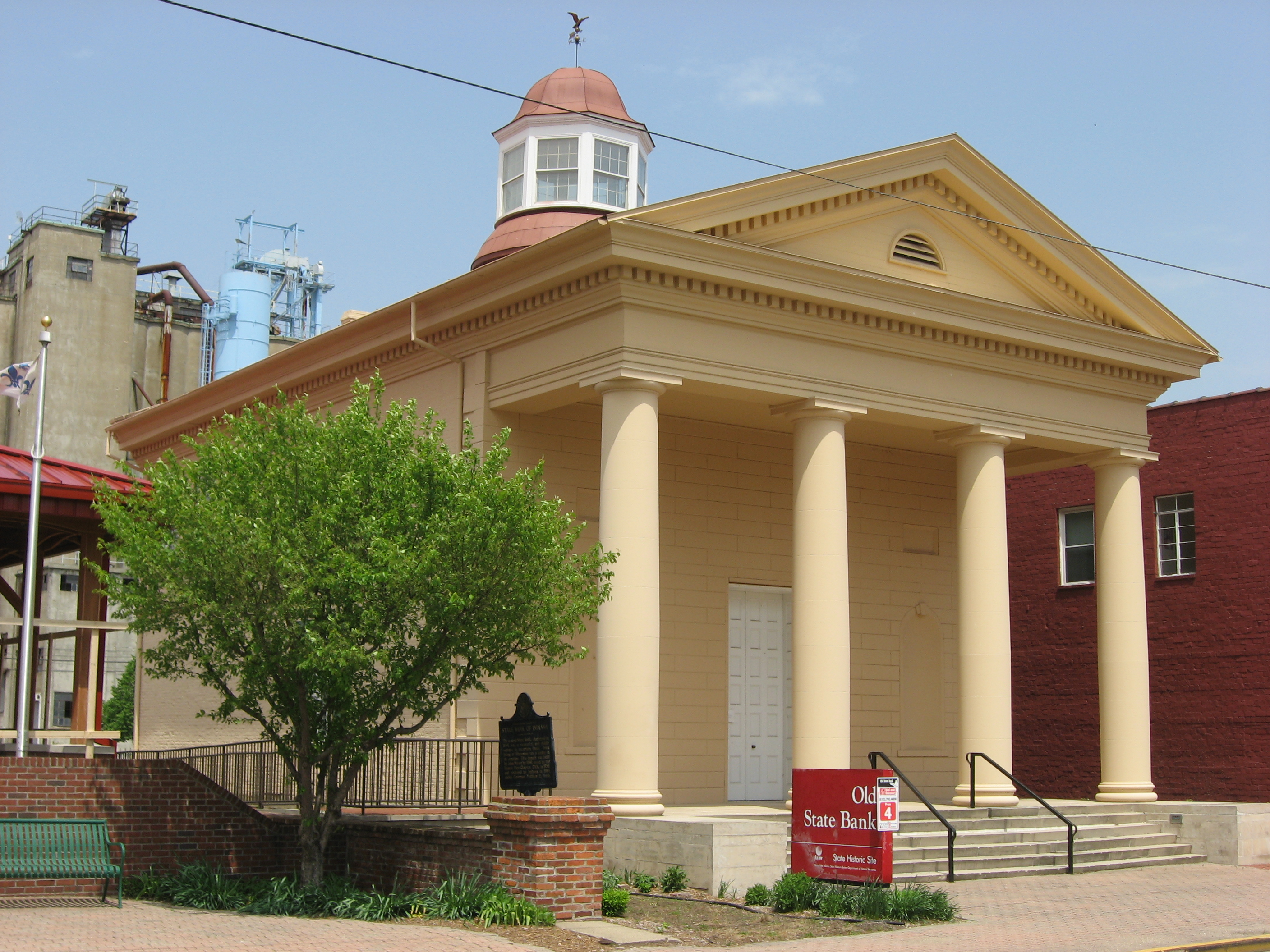 Front and western side of the Old State Bank, located along N. Second Street in Vincennes, Indiana, United States. Built in 1838, it is listed on the National Register of Historic Places, and it is part of a Register-listed historic district, the Vincennes Historic District.